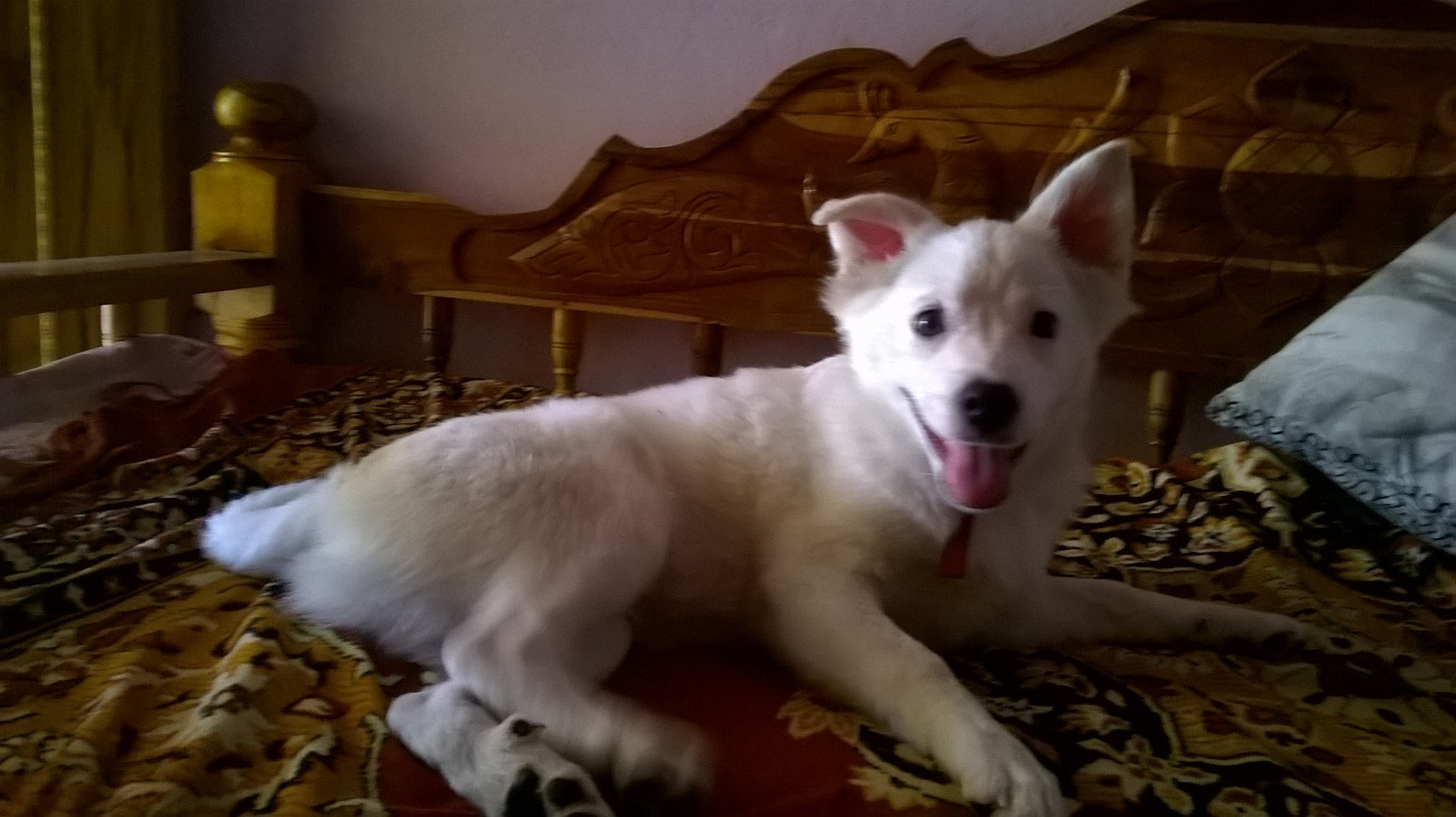 Dog at araku